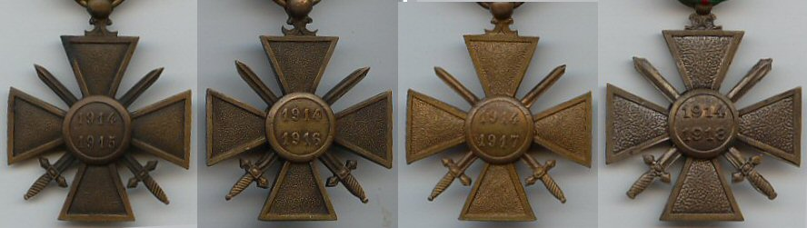 Reverse of the four variants of the World War 1 French Creoix de Guerre